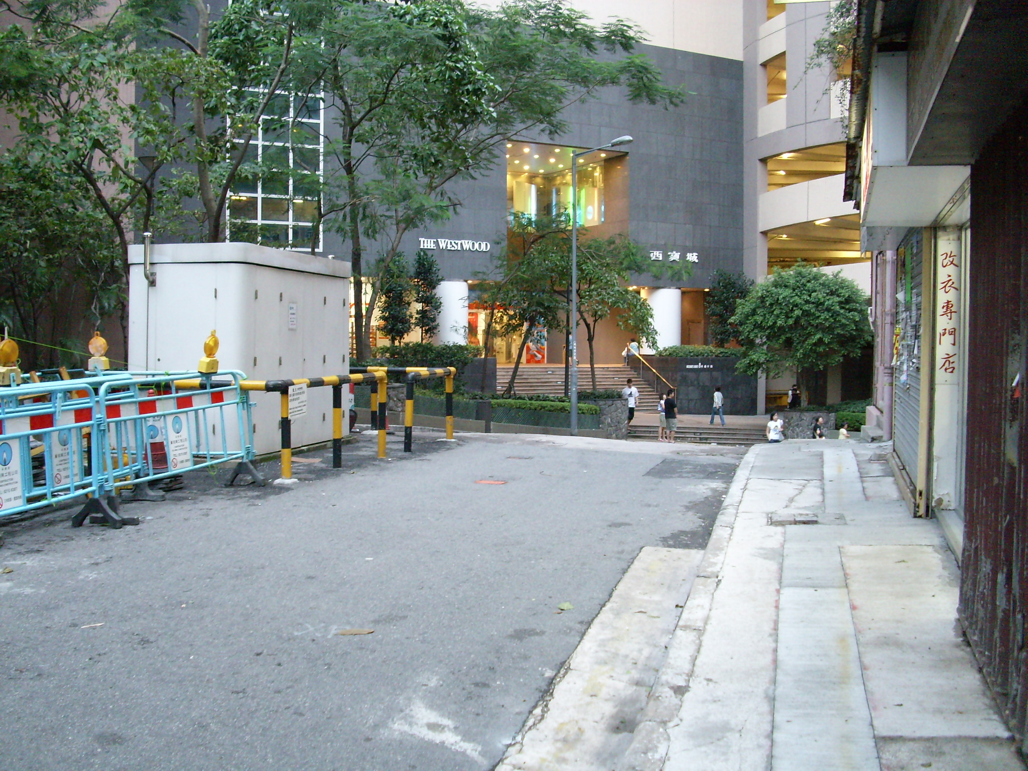 South Lane of Hong Kong Island